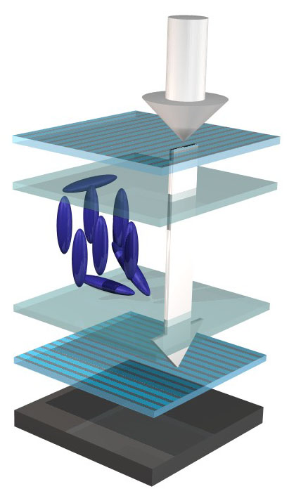 Schematic of a liquid crystal display element. With the field turned on, the mesogens align between the crossed polarizers. Because of this, the light polarized at the upper polarizer cannot pass through the bottom polarizer. The entire assembly thus looks dark.